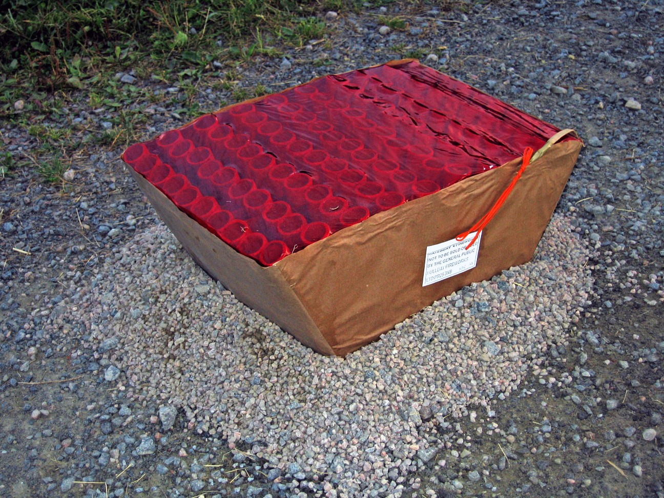 Firework fan cake with one hundred shells.